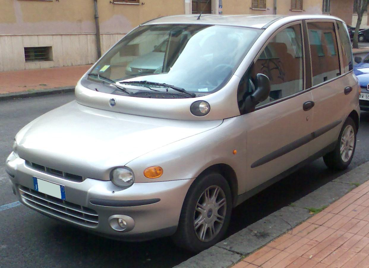 Fiat Multipla